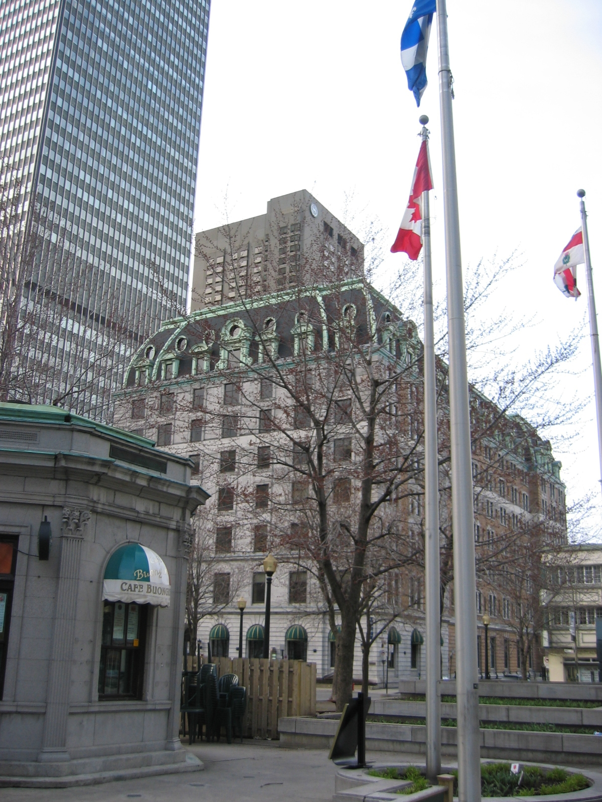 Le Windsor office building in Montreal, Canada. Formerly the north annex of the Windsor Hotel. The remainder of the hotel was destroyed by fire.